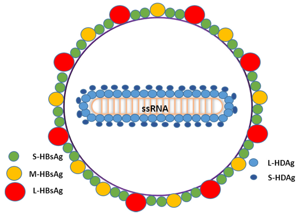 Schematic representation of the hepatitis delta virus virion.